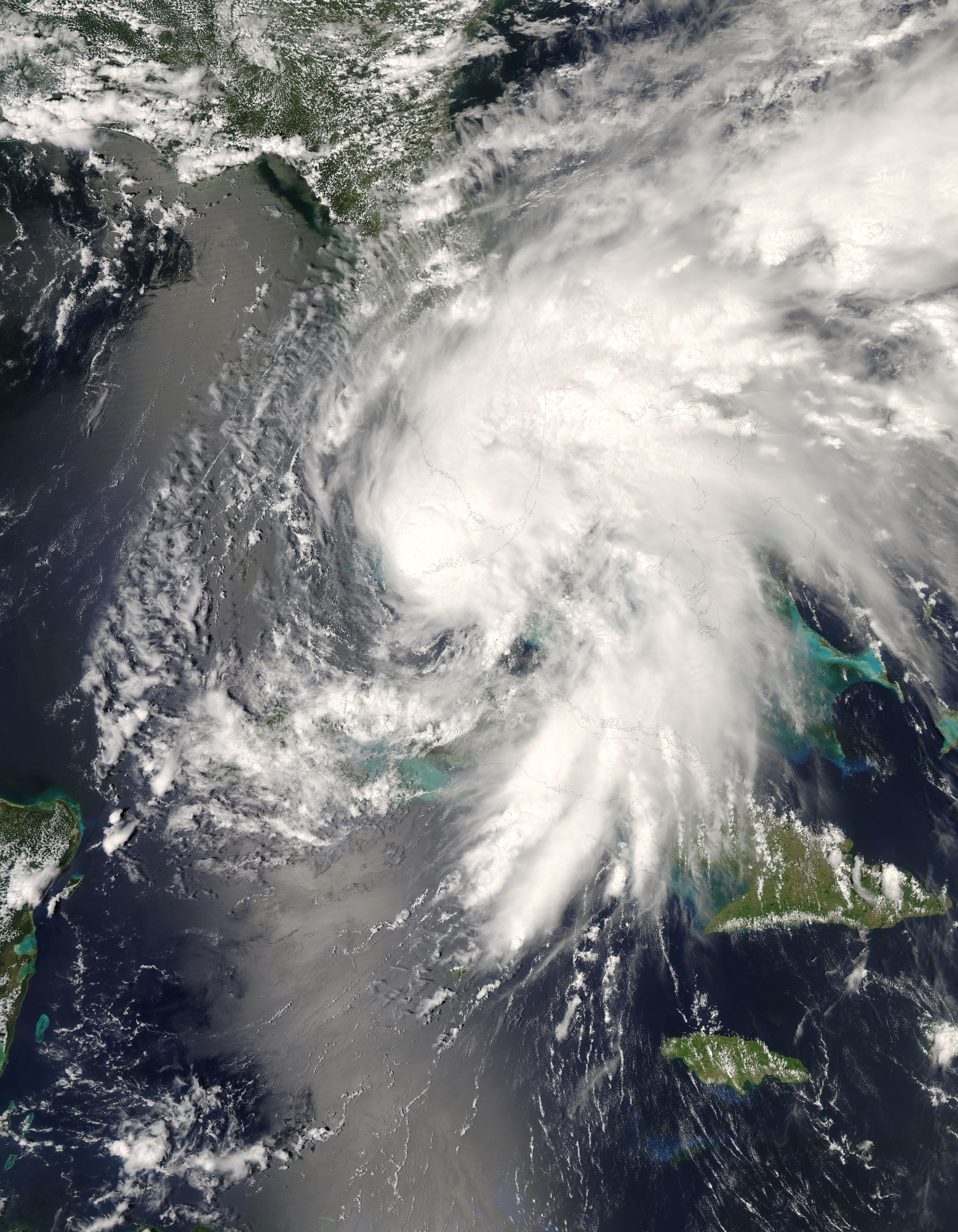 Tropical Storm Fay (2008) as seen from Aqua Satellite on 2008-08-18